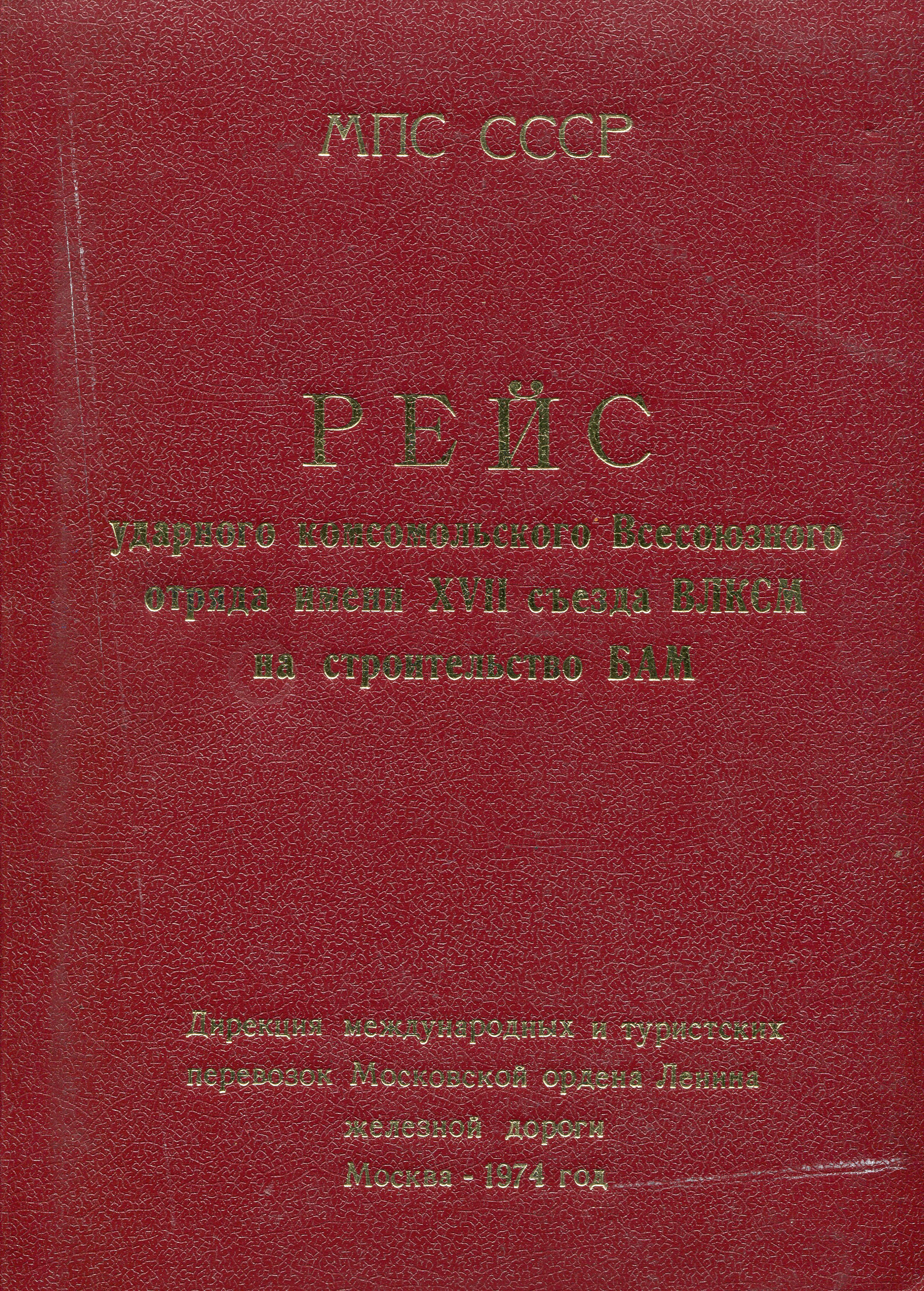 The trip of the Komsomol detachment to the construction of the BAM. 1974 year.